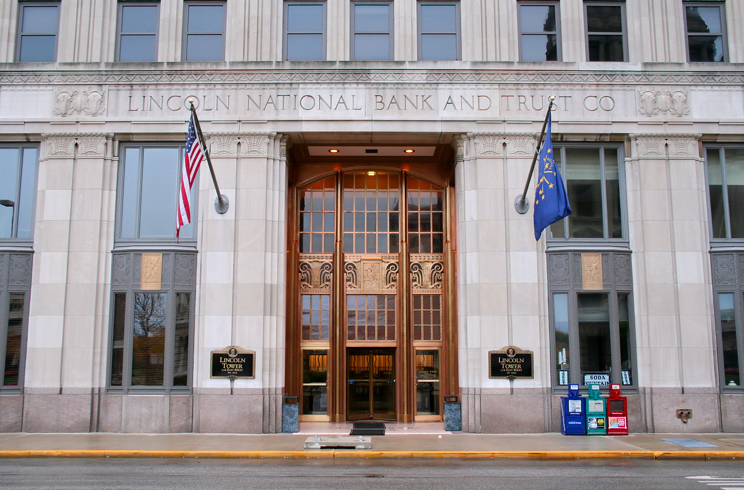 Lincoln Bank Tower entrance in Fort Wayne, Indiana. Photo shot by Derek Jensen (Tysto), 2005-October-23